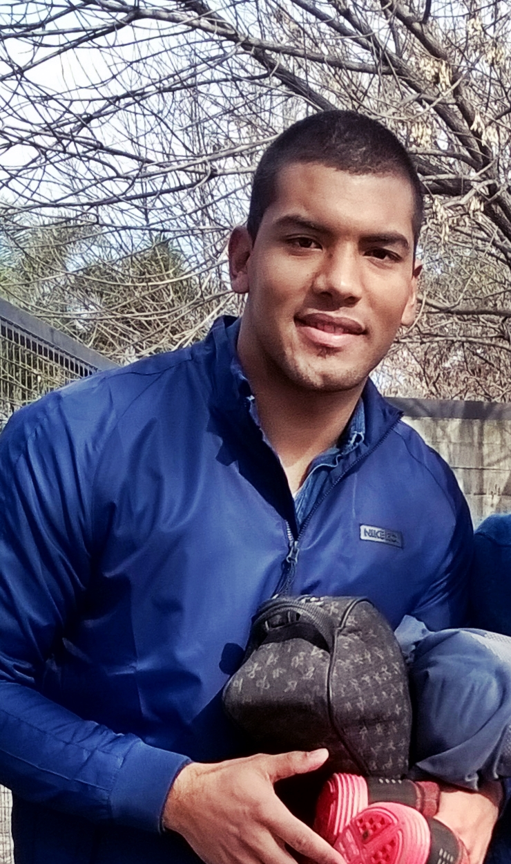 Walter Benítez in Quilmes AC, season 2016, coming out of training.